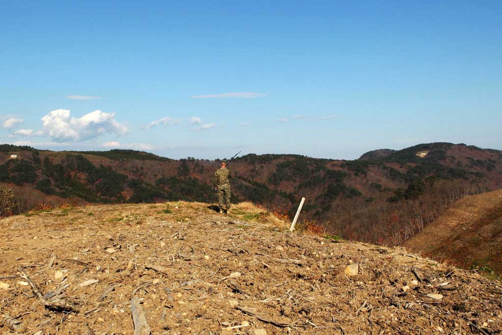 1st Lt. Matthew M. Browning communicates over a radio with observation posts so they have a visual of the intended target area at Camp Sendai, Japan, Nov. 20, in the Ojojihara Maneuver Area during Artillery Relocation Training Exercise 10-3 Ojojihara. Browning is the executive officer of Battery B, 3rd Battalion, 12th Marine Regiment, 3rd Marine Division, III Marine Expeditionary Force. 3rd Bn., 12th Marines is conducting live-fire artillery training to maintain operational readiness of the artillery battalion in support of the U.S. – Japanese security alliance. (Official Marine Corps photo by Lance Cpl. Garry J. Welch)